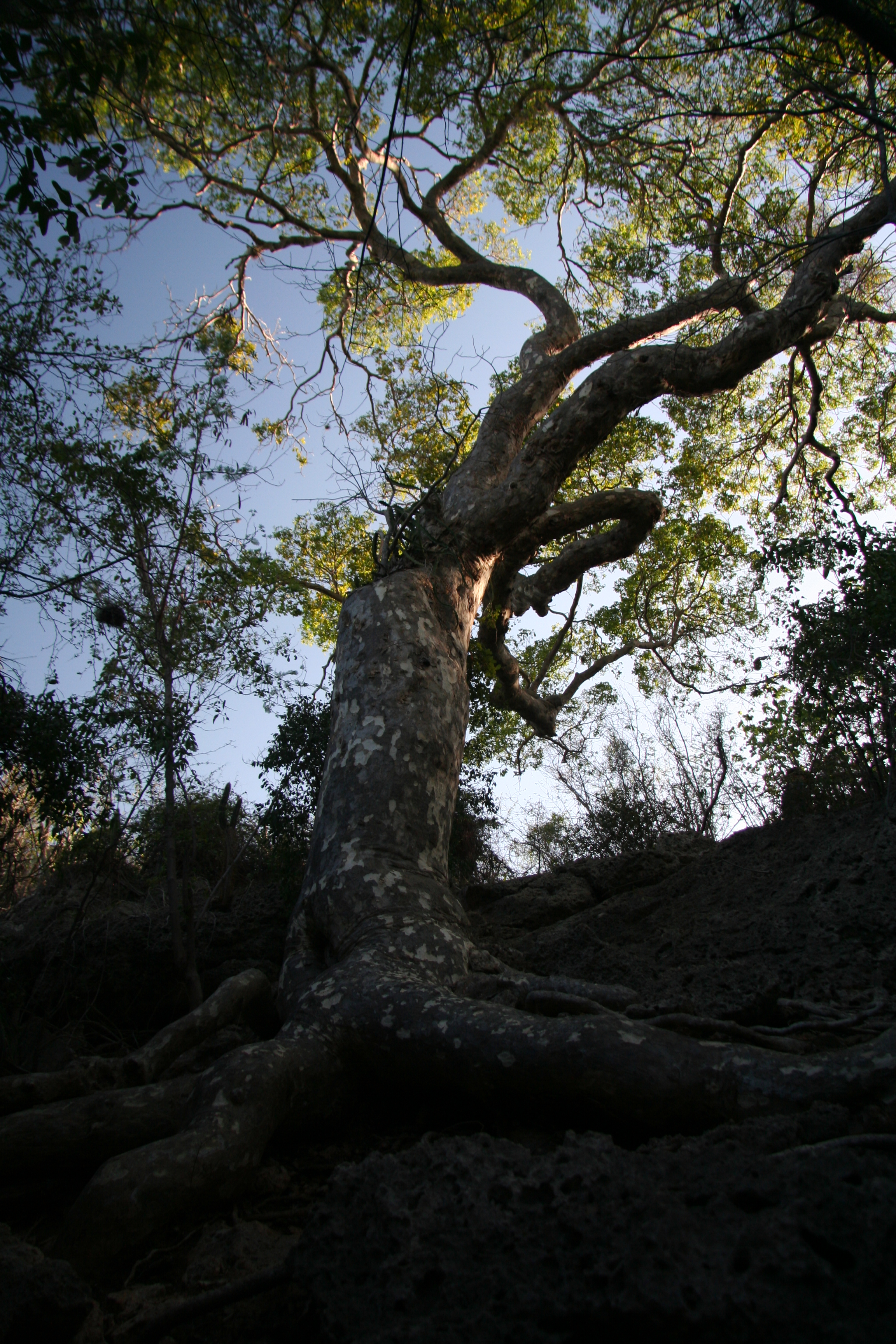 Guayacán Centenario, Guayanilla, Puerto Rico